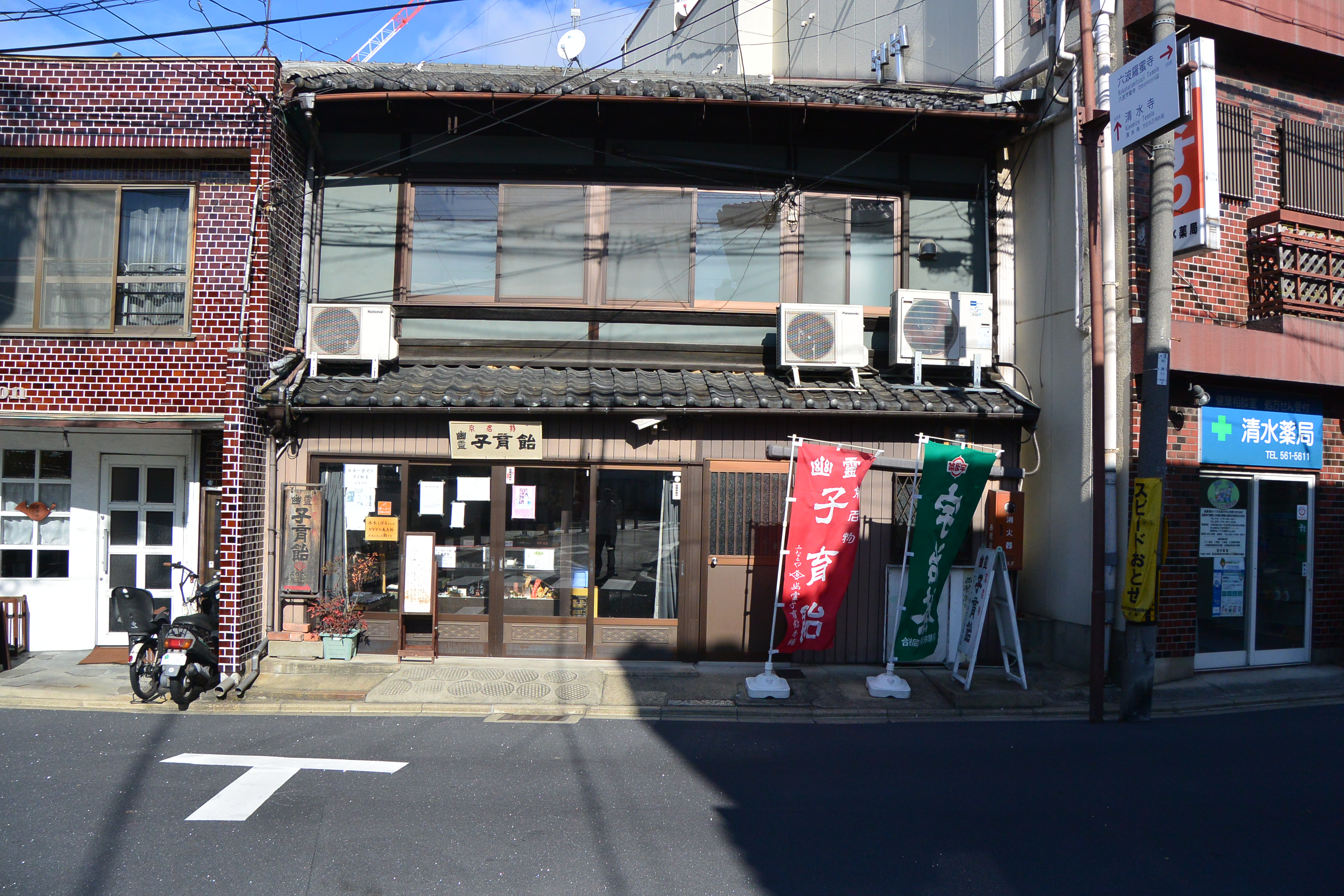 Tradisional sweet AME shop at kyoto sity